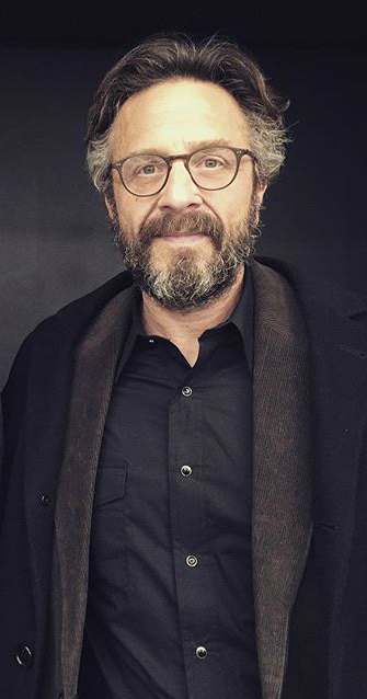 Marc Maron in December 2015 at the Condé Nast building